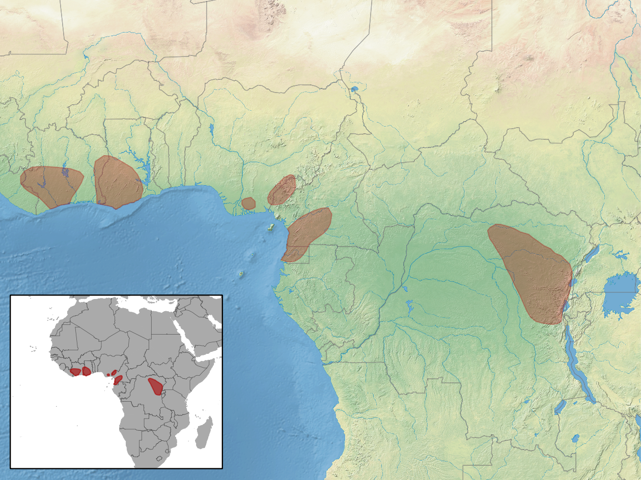 geographic distribution of Idiurus macrotis